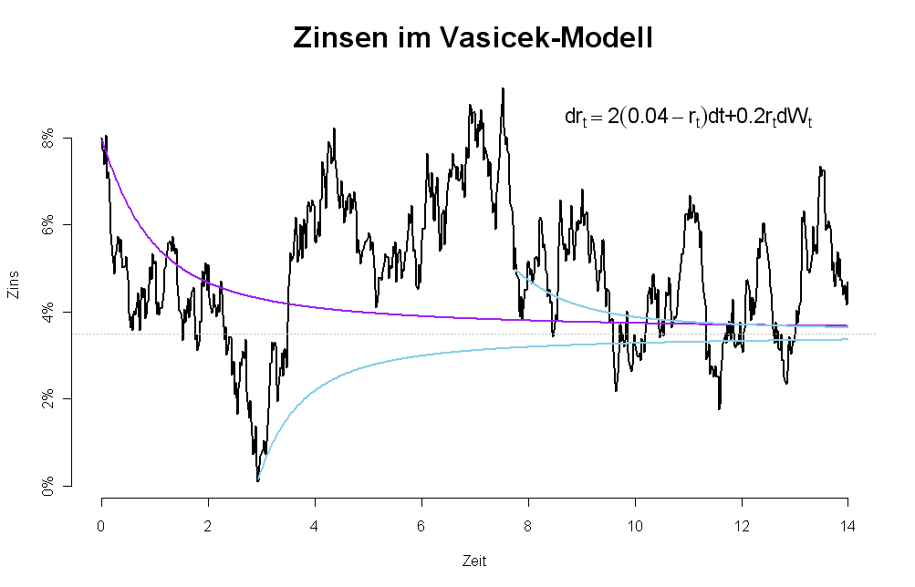 a path of a gaussion ornstein uhlenbeck short rate process and the corresponding yield curve at T=0 (purple) and some points in time later.